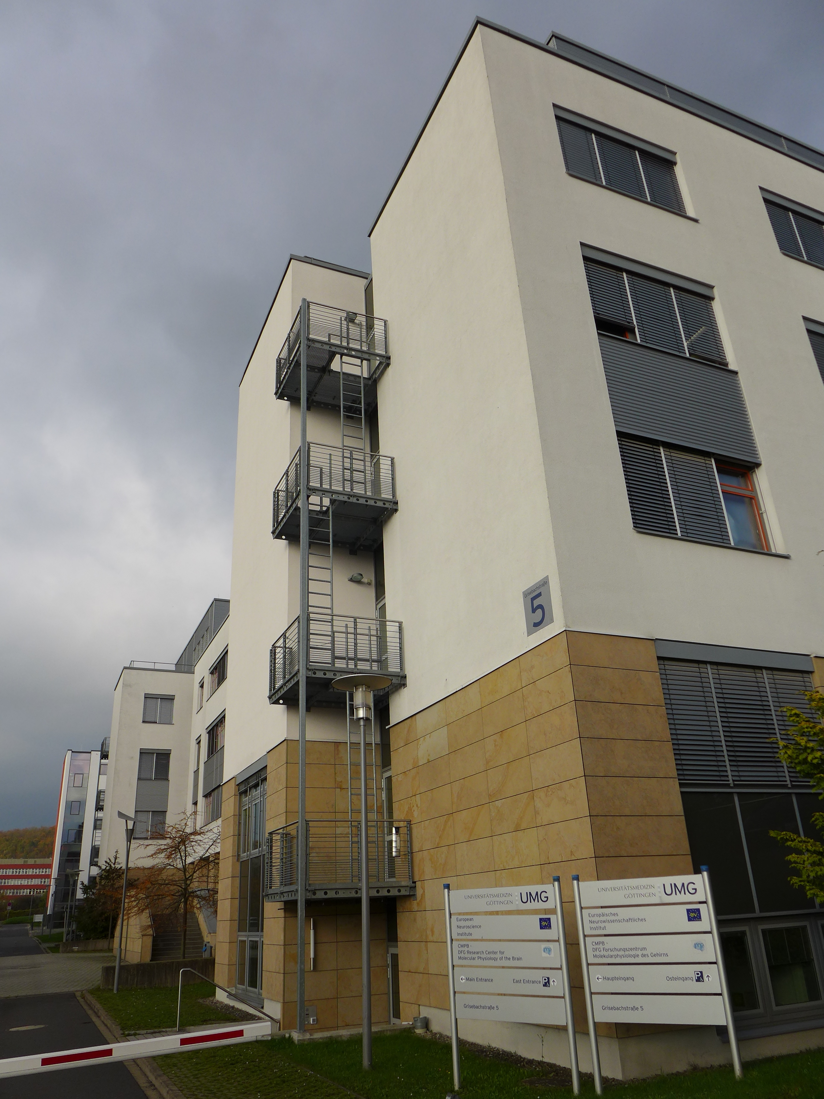 Grisebachstr. 5